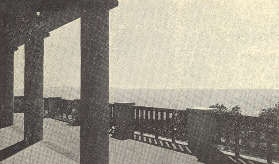 Cure balcony on the Sanatório das Penhas da Saúde (Penhas da Saúde Sanatorium), near the city of Covilhã, in Portugal. This image was published in the Gazeta dos Caminhos de Ferro magazine No. 1398, of 16th March 1946, and scanned by the Hemeroteca Municipal de Lisboa.